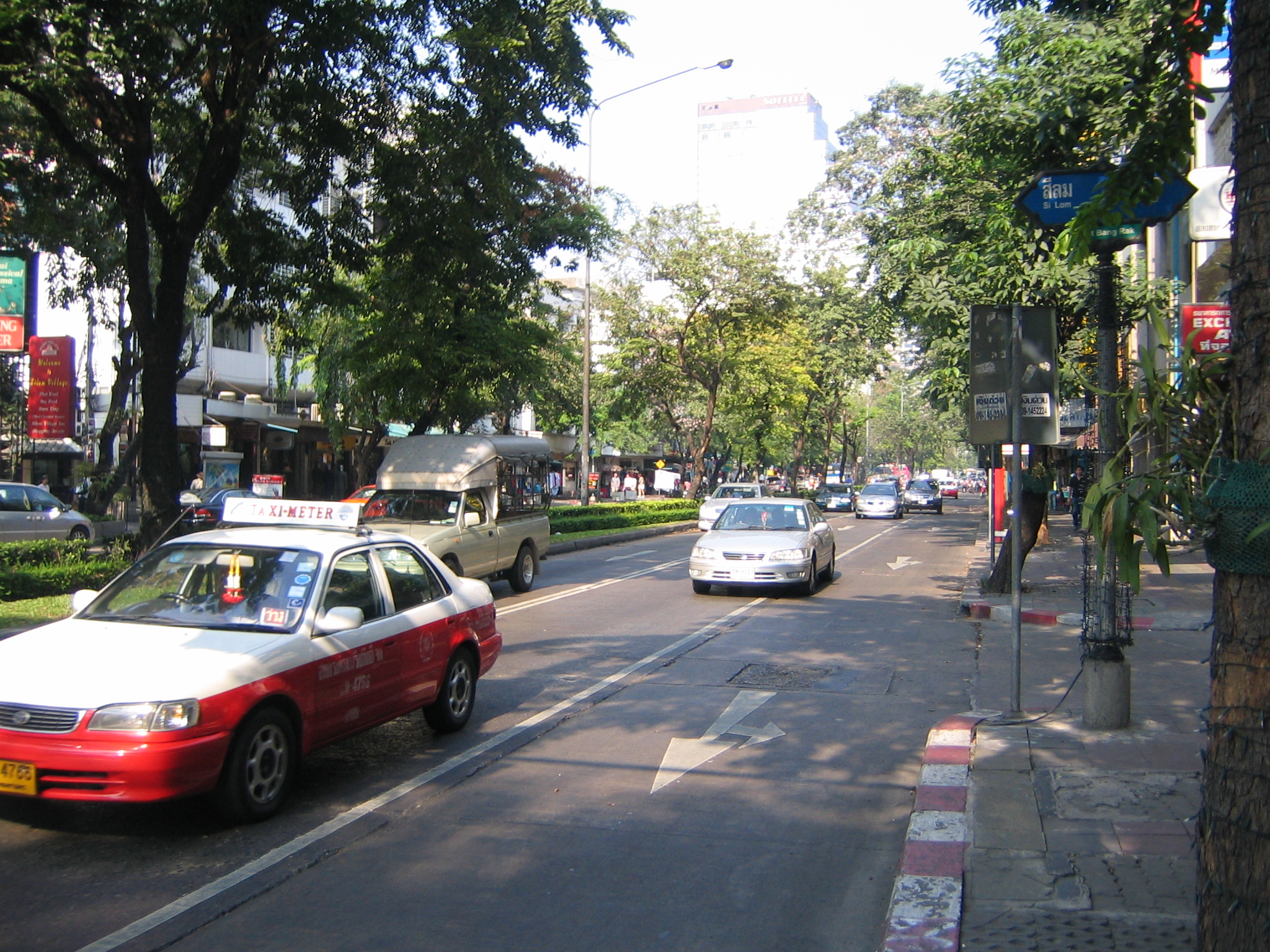 Silom Road in downtown Bangkok, Thailand, has some greenery and wide foot paths, which is not so common in Bangkok.